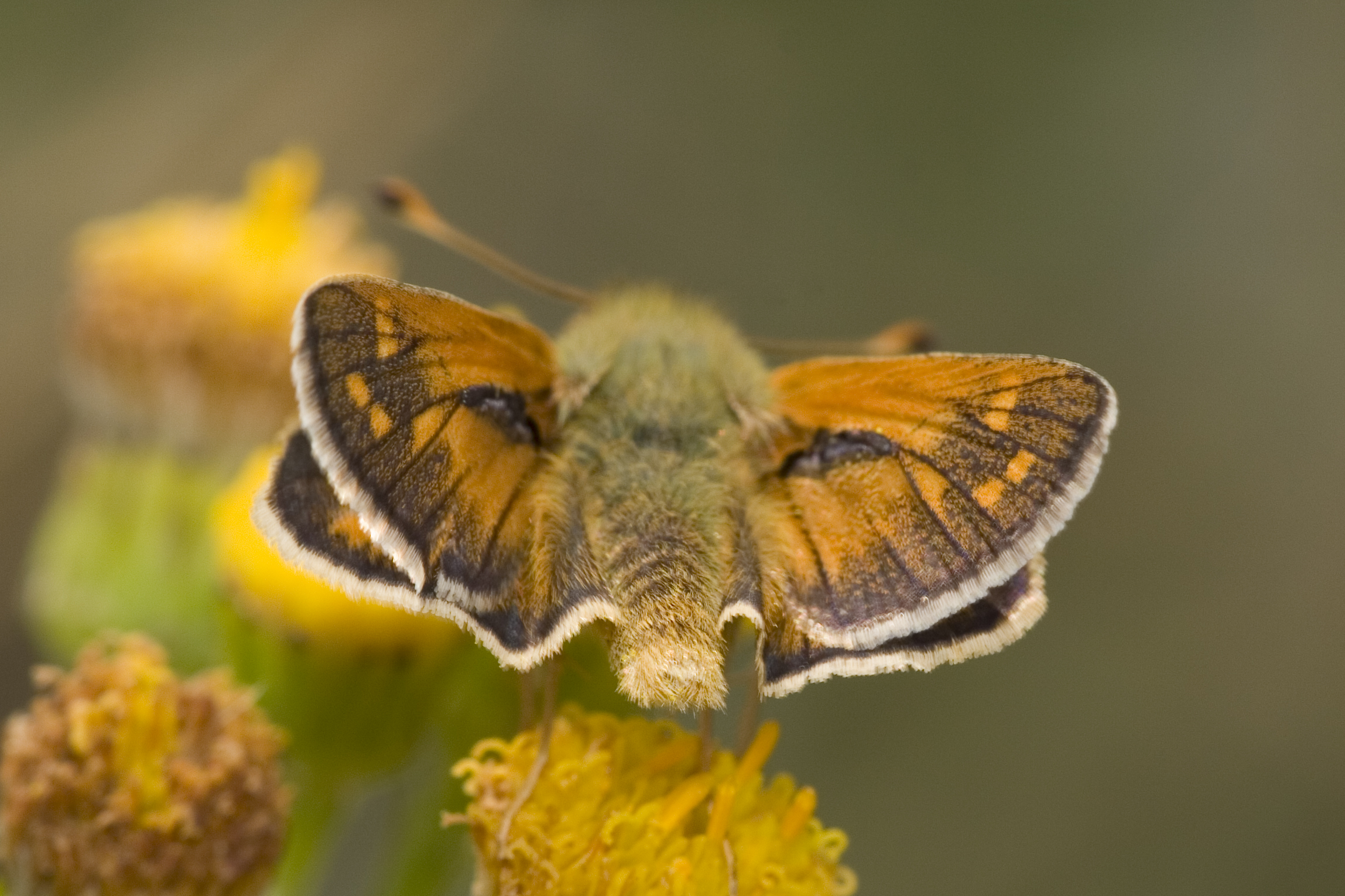 Hesperia comma